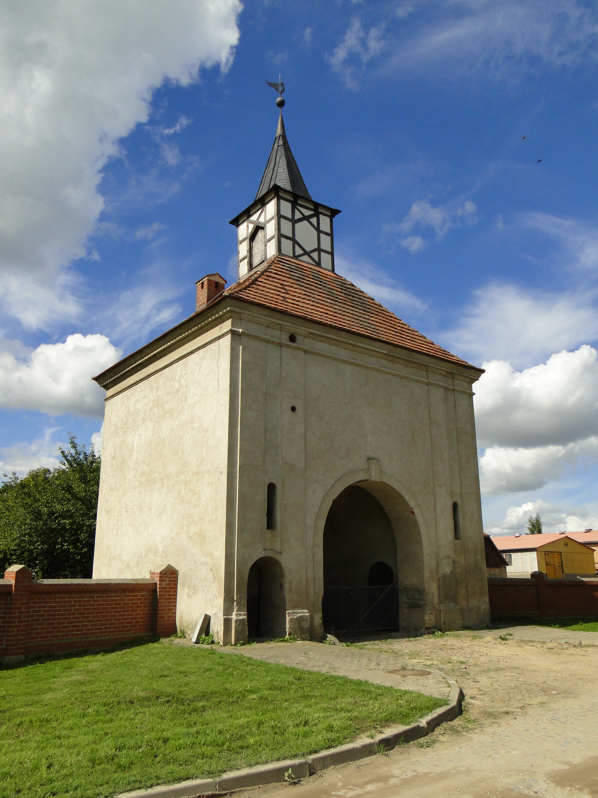 Gatehouse in Groß Vielen, district Müritz, Mecklenburg-Vorpommern, Germany